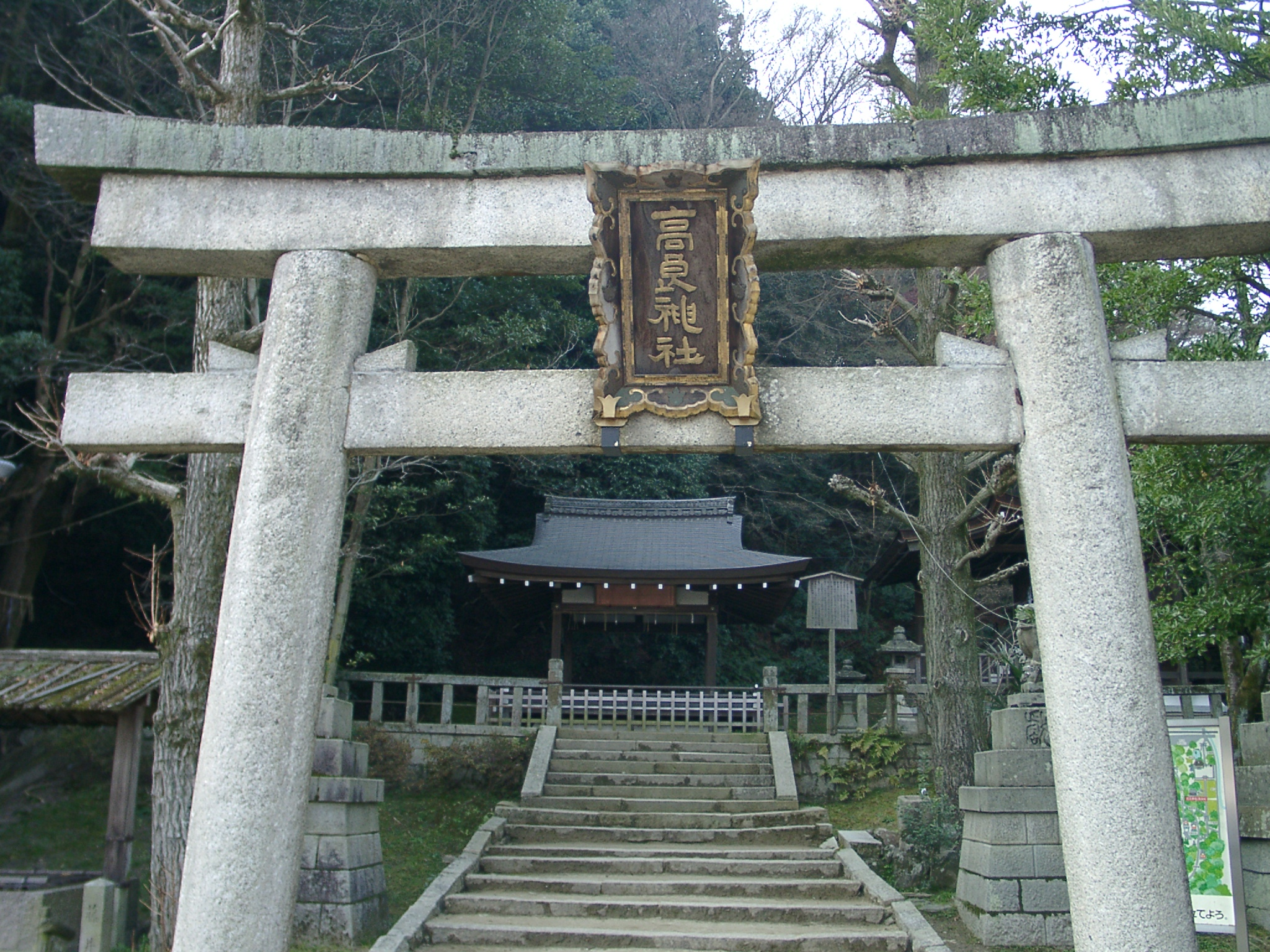 Kora Shrine, in Yawata city, Kyoto prefecture